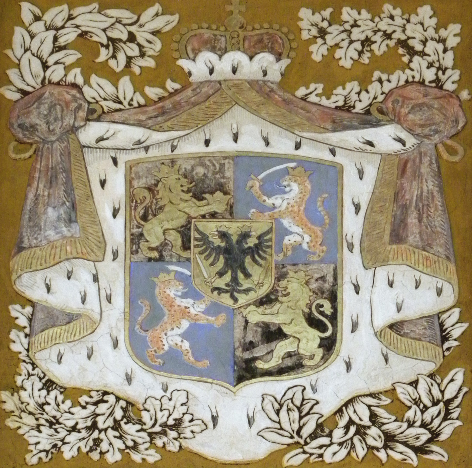 Coat of arms of Imre Thököly. Mausoleum entry in the Evangelic church, Kežmarok, Slovakia.